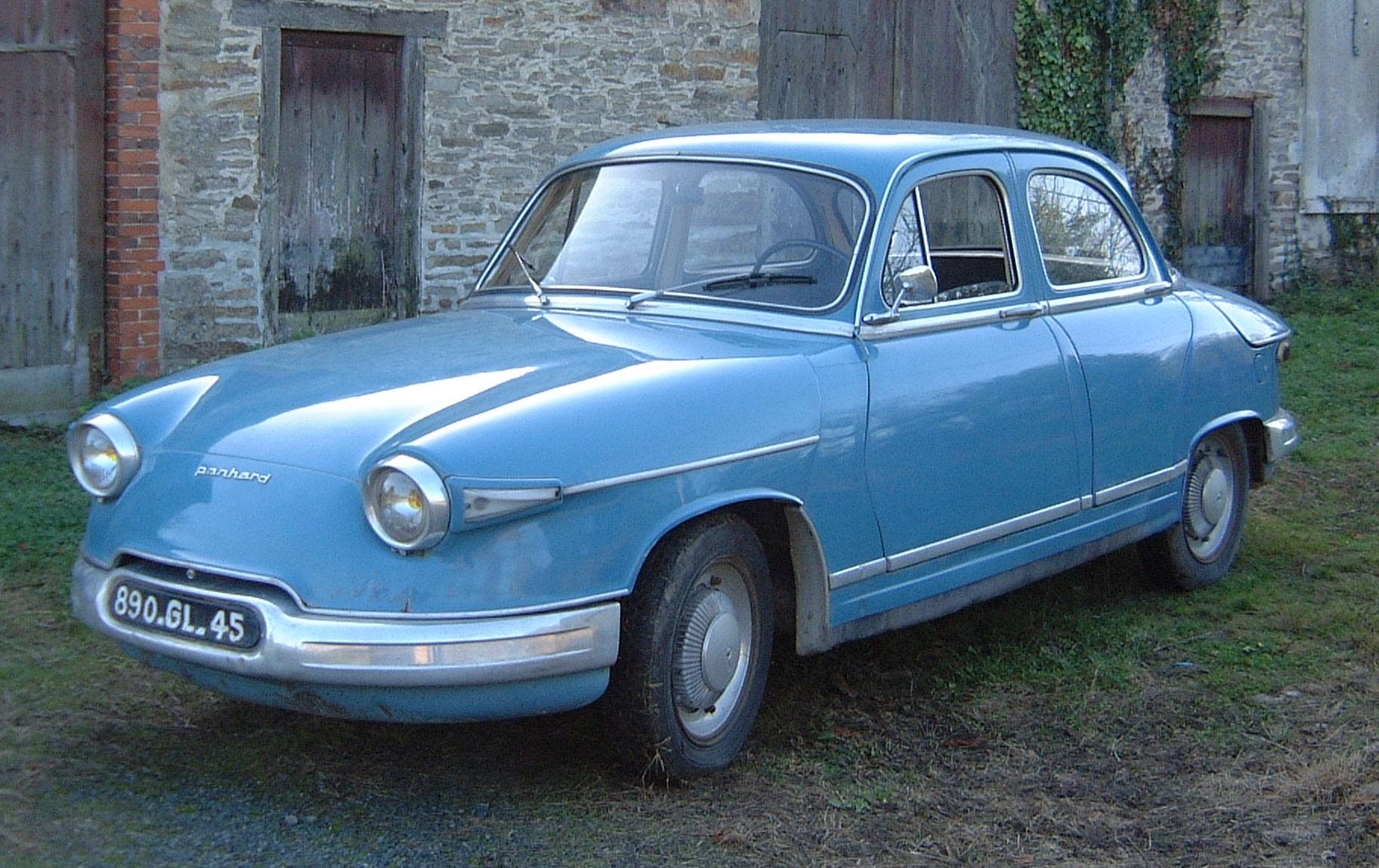 Panhard PL17 1964 front My father's car